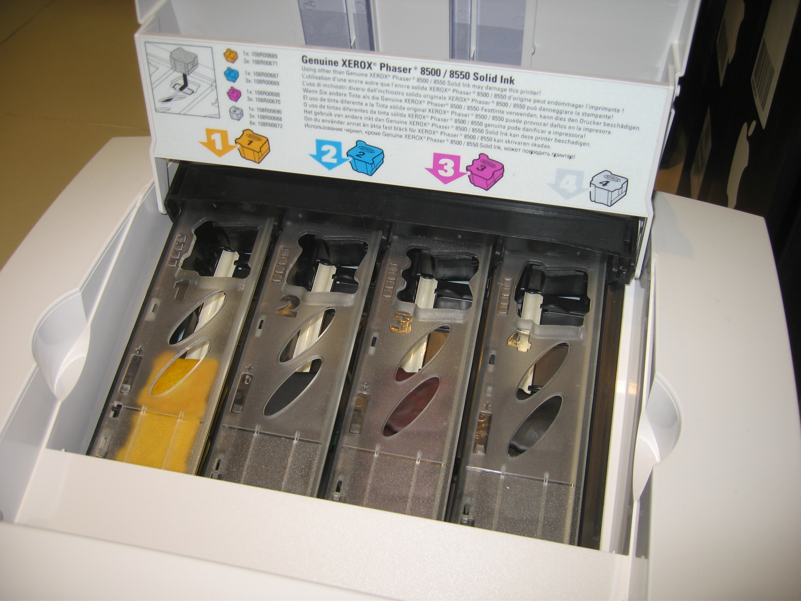 Xerox Phase 8500 Solid Ink tray.